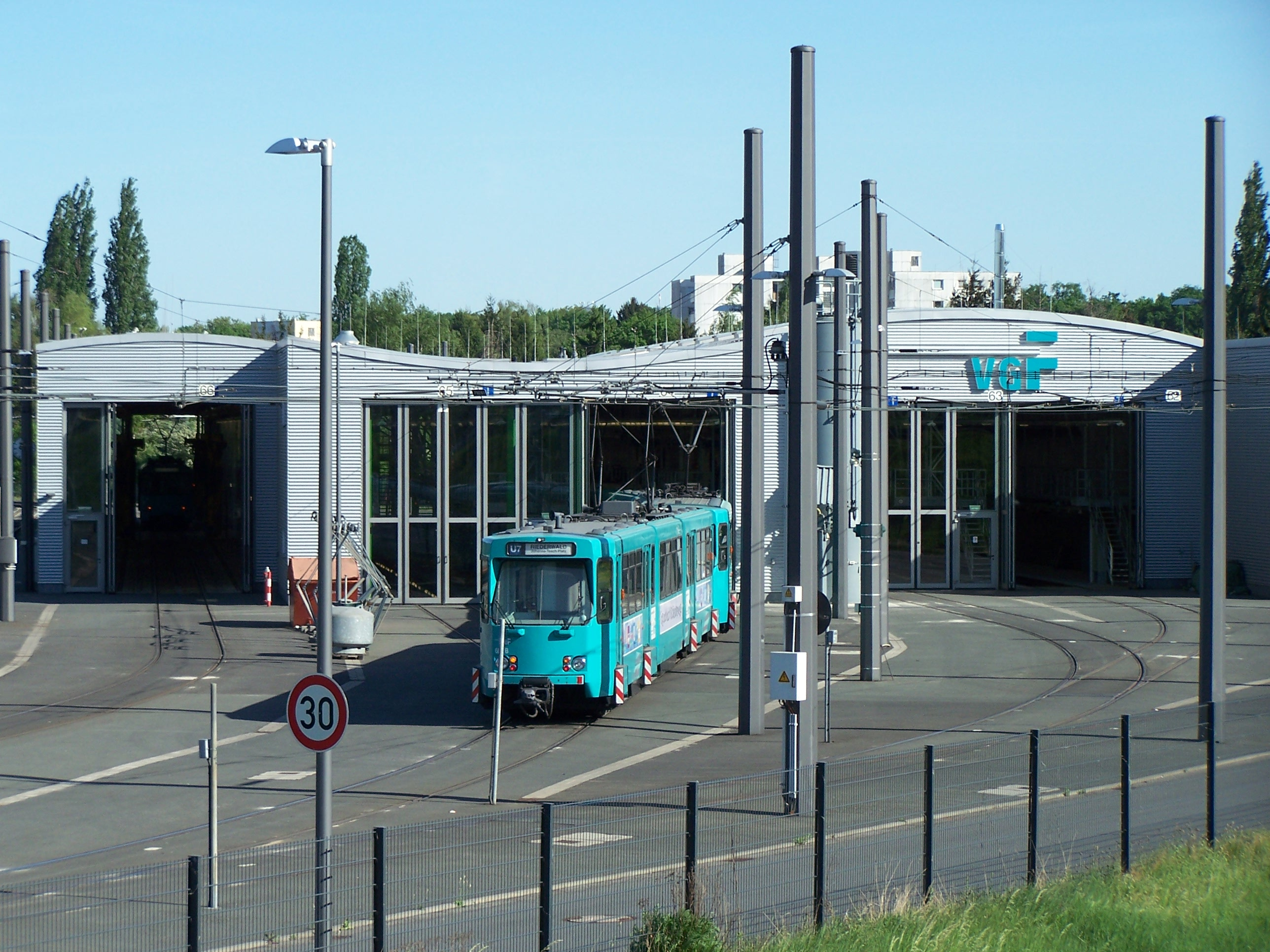 A train which consists of three Ptb-railcars at Betriebshof Ost, April 2007, Frankfurt am Main